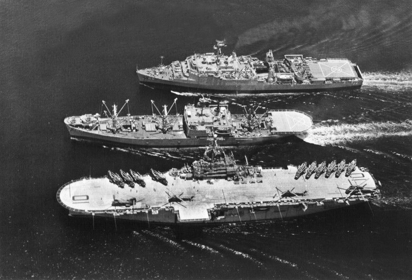 The U.S. Navy stores ship USS Vega (AF-59) replenishes the amphibious assault ship USS Tripoli (LPH-10) and the dock landing ship USS Thomaston (LSD-28) off Vietnam, circa in 1969.